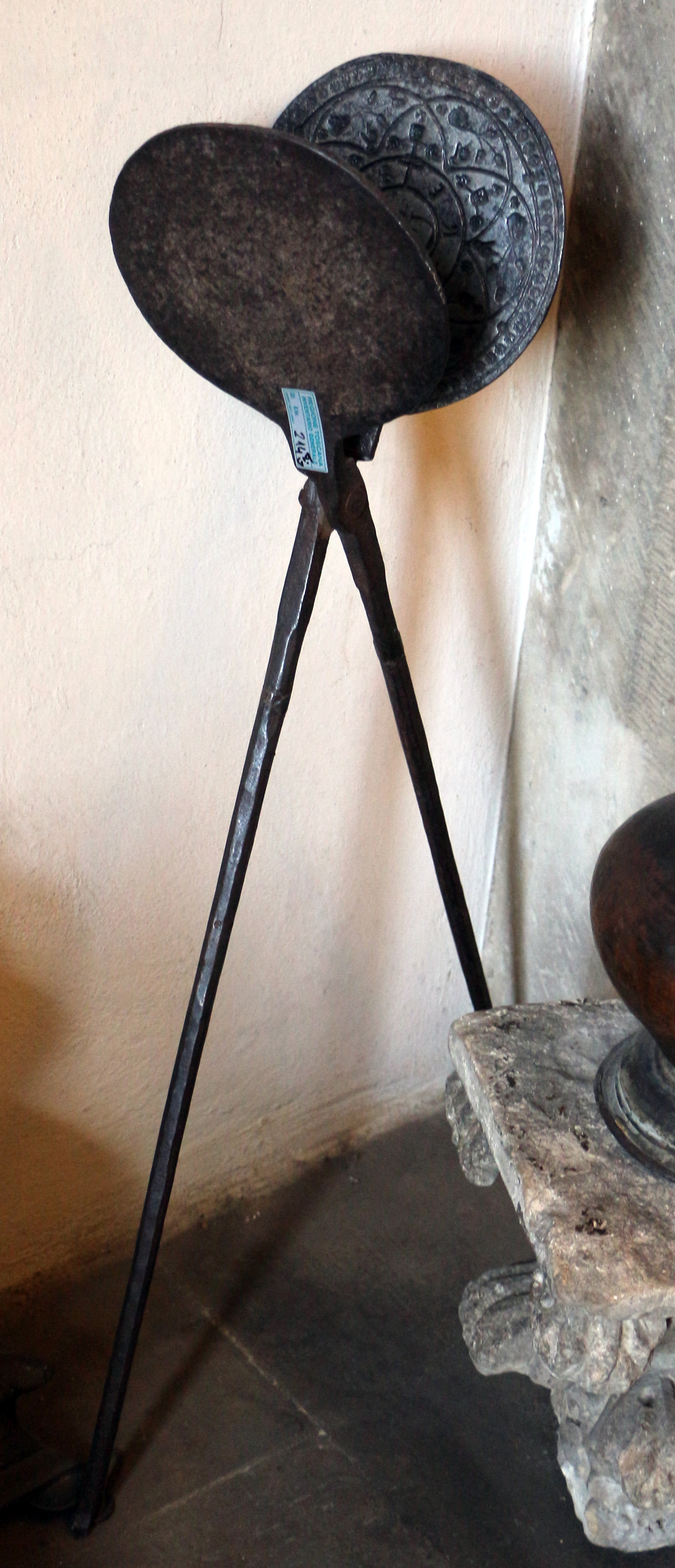 Casa Siviero